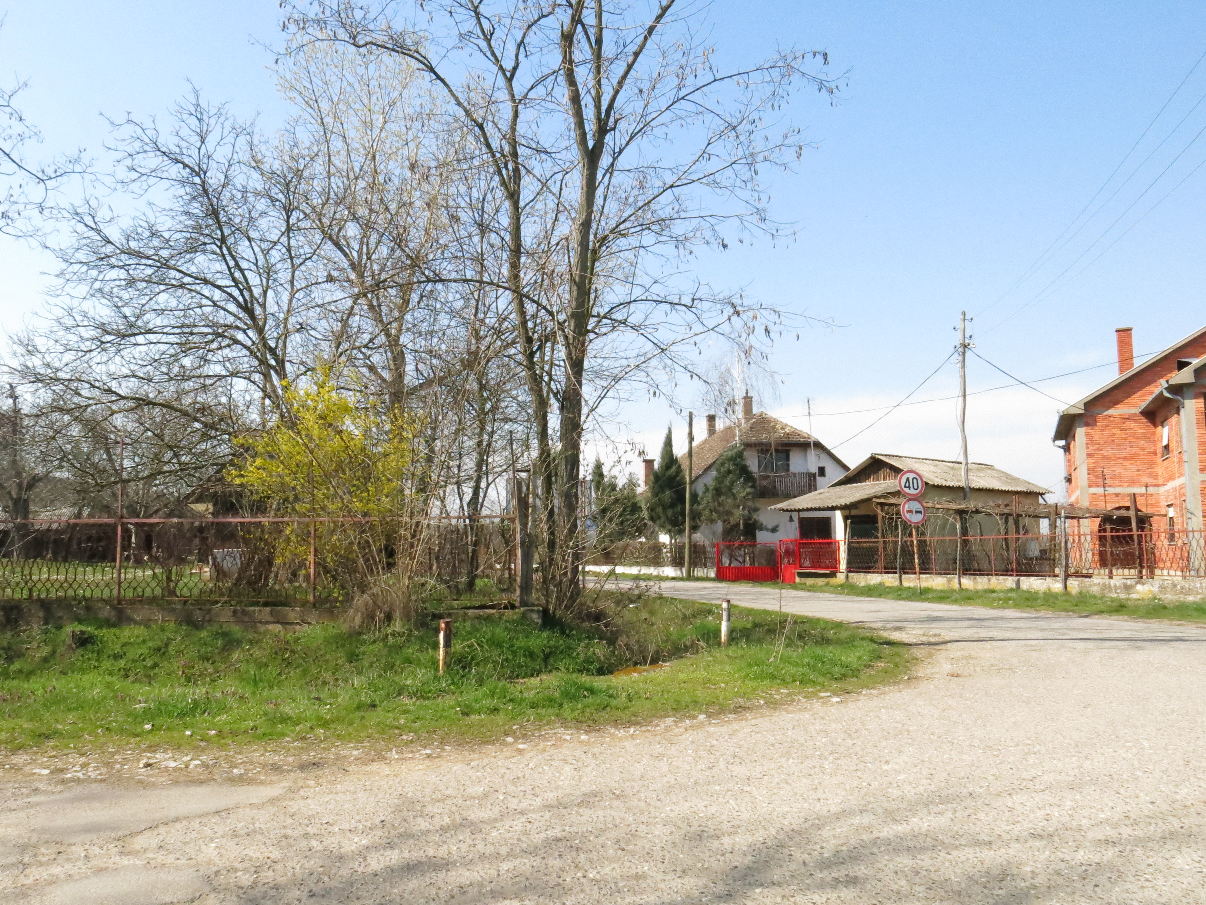 Novo Selo, Street